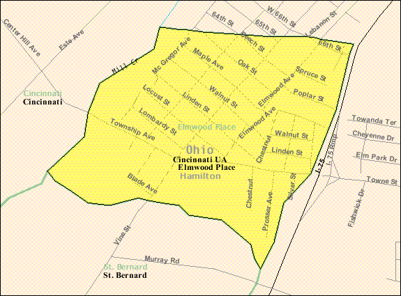 Map of Elmwood Place, a village in Hamilton County, Ohio, United States, with its boundaries at the time of the 2000 census.